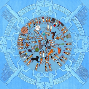 Dendera zodiac with original colors (reconstructed) - courtesy of Alexandre N.Isis